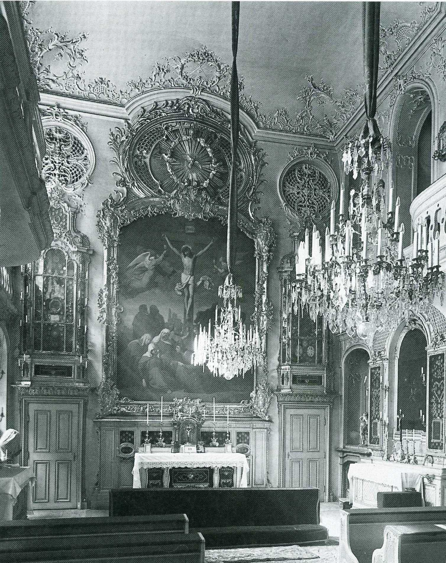 Silberkapelle Taschenbergpalais Dresden